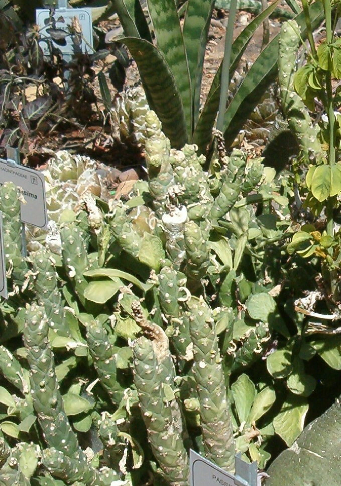 At Kirstenbosch National Botanical Gardens Species Euphorbia lugardae, Syn.: Monadenium lugardiae